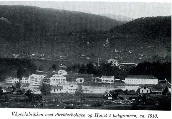 A view of Kongsberg Våpenfabrikk around 1910. The managing director's accomondations are visible, and in the background Håvet can also be seen.